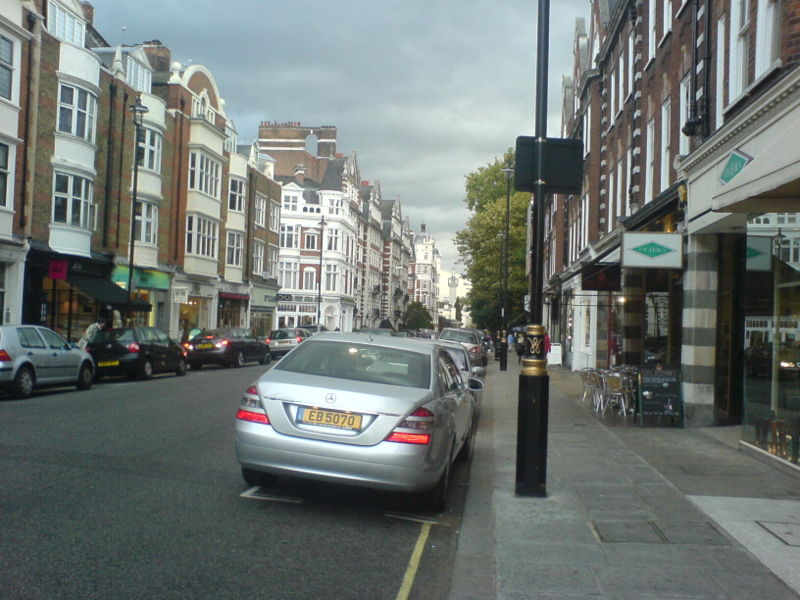 St John's Wood High Street, London